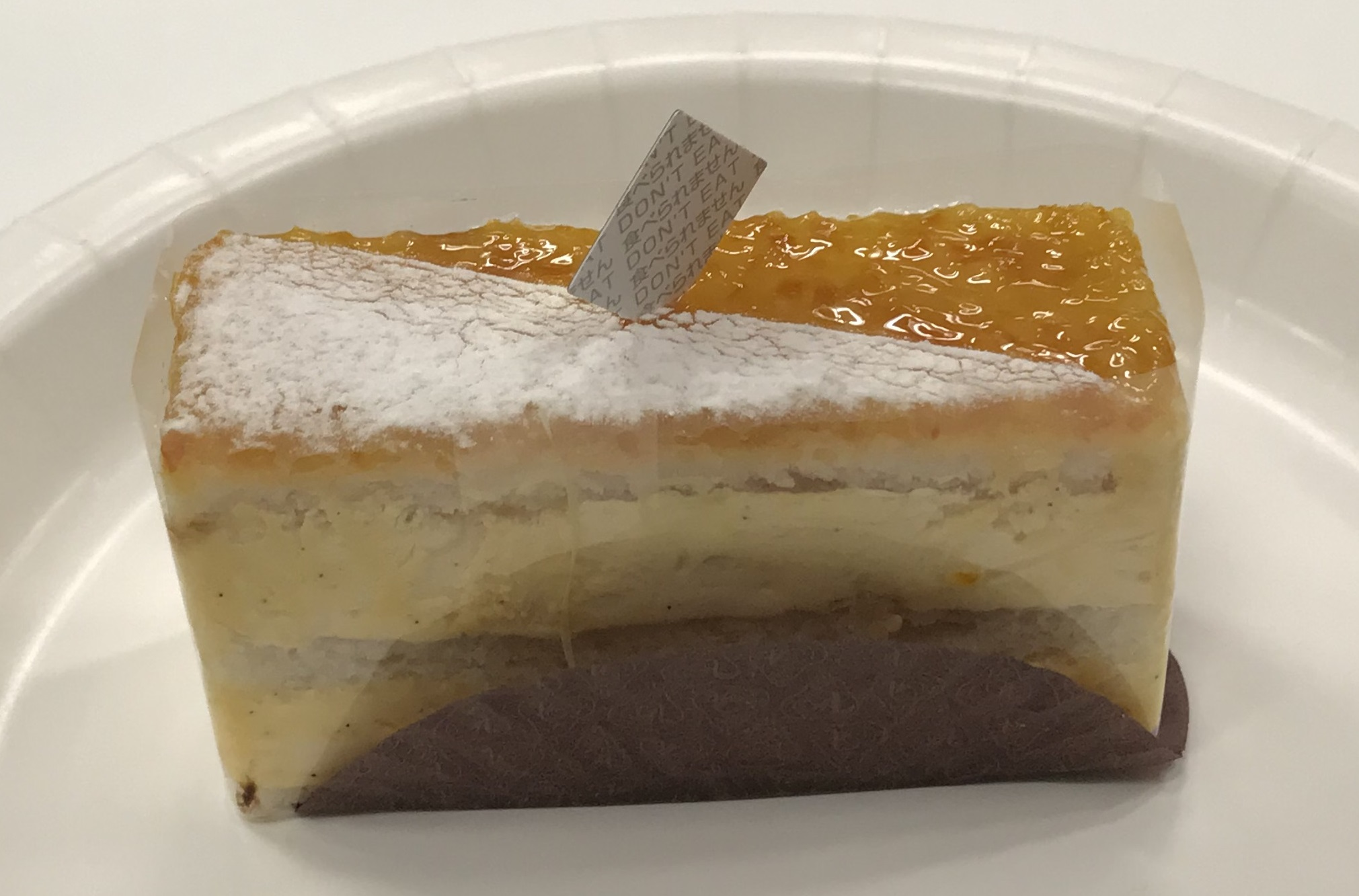 A slice of misérable cake